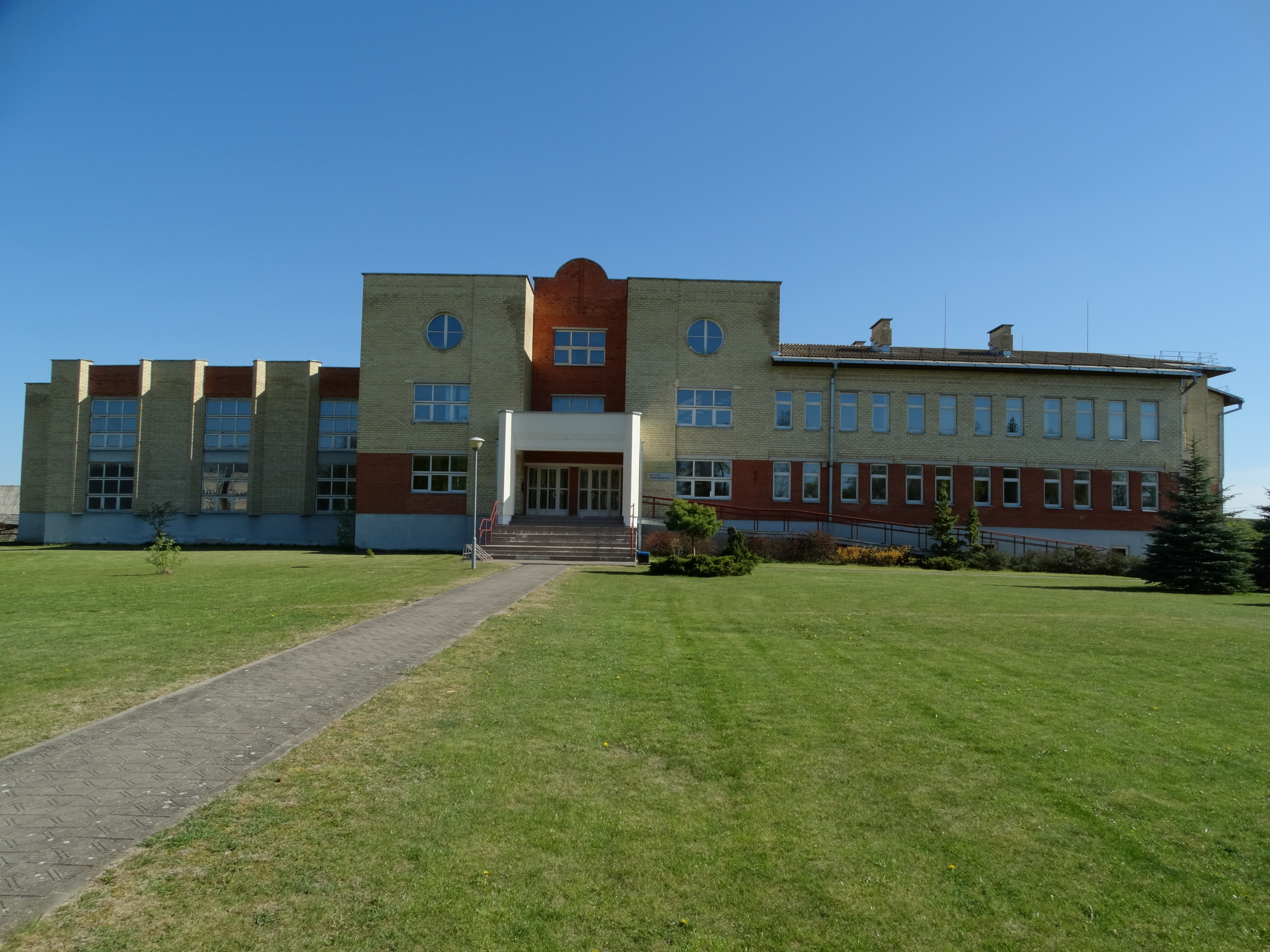 Upytė, fibrous plant research station, Panevėžys District, Lithuania